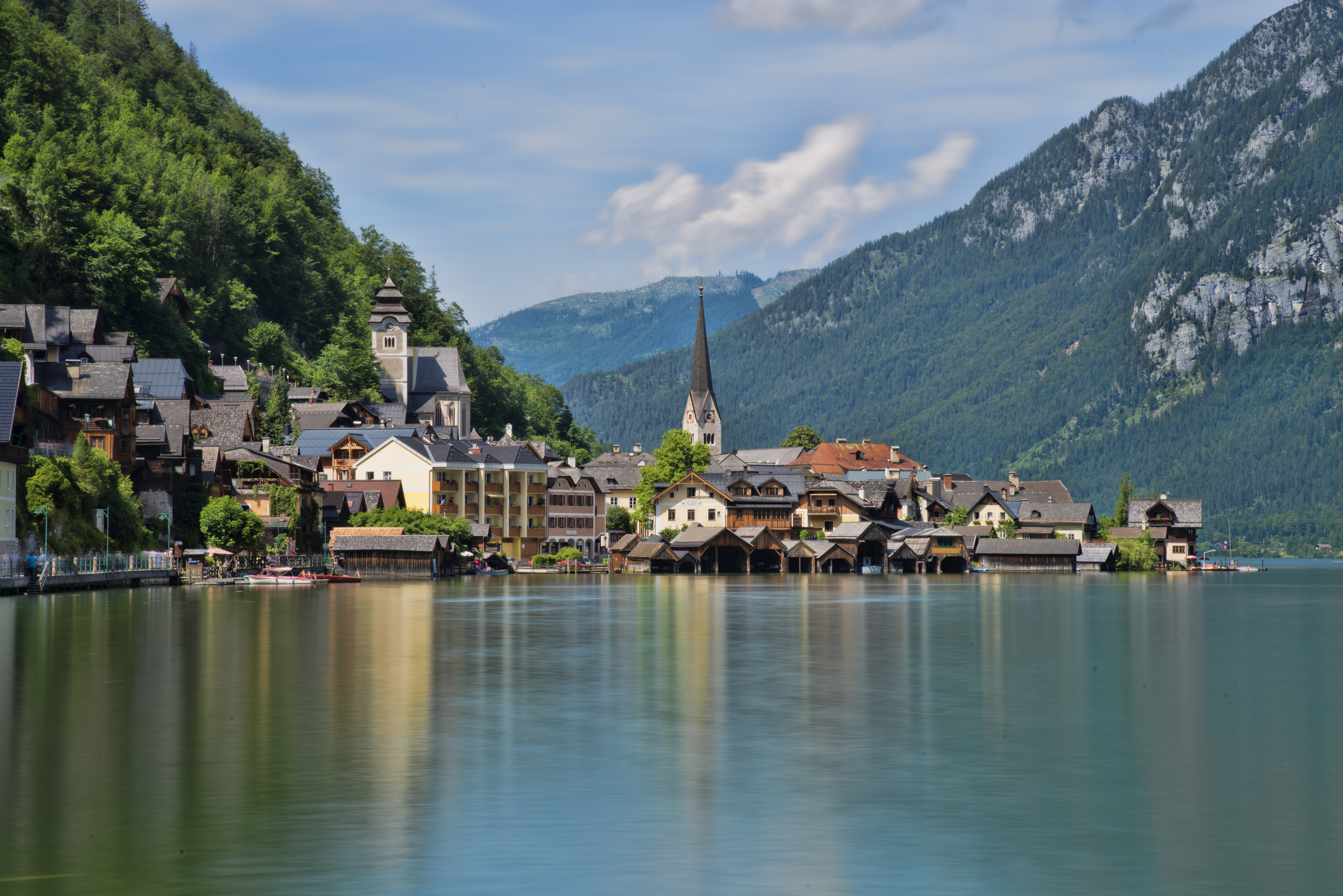 hallstatt austria unesco